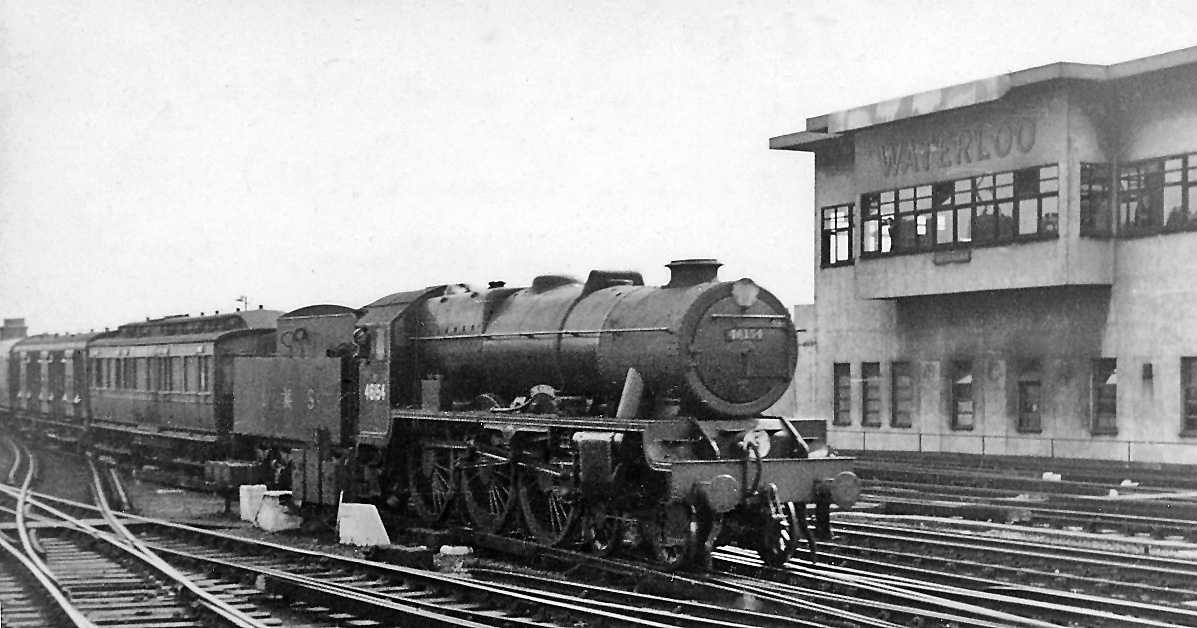 LMS Rebuilt 'Scot' 4-6-0 brings Atlantic Coast Express into Waterloo On a run up from Exeter during the 1948 Locomotive Exchanges, No. 46154 'The Hussar' (built 7/30, rebuilt 3/48, withdrawn 12/62) passes Waterloo Power Box. It was one of the engines that excelled themselves on the Trials.